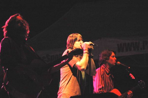 Il gruppo Jars of Clay in concerto